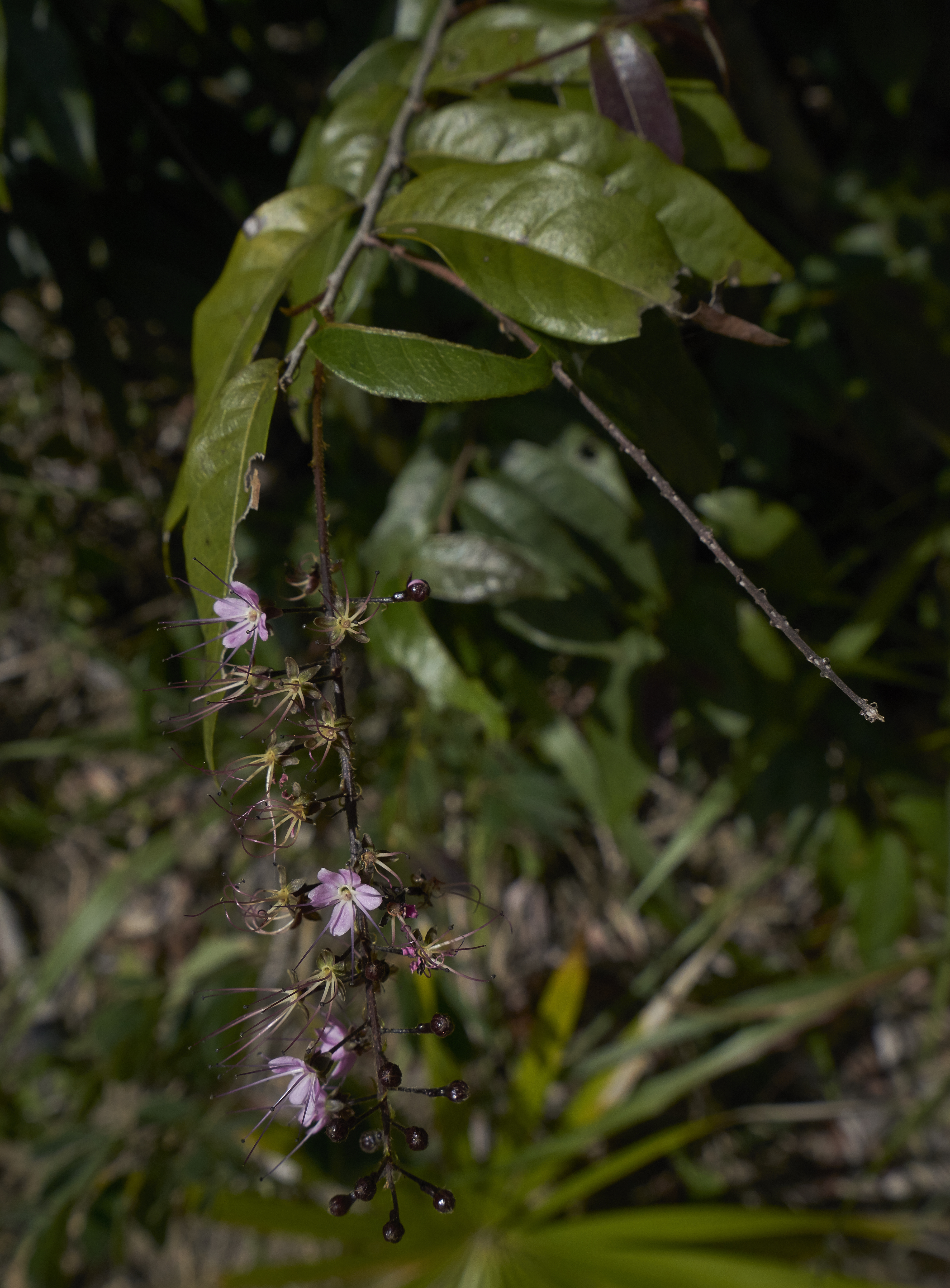 Hirtella racemosa var. hexandra, near Big Rock Falls, Mountain Pine Ridge Forest Reserve, Belize The making of this document was supported by the Community-Budget of Wikimedia Germany.